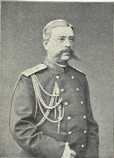 Lieutenant-General of the Russian Empire, Vladimir Clot.